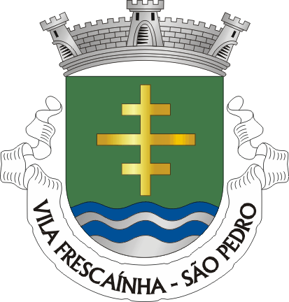 Crest of Vila Frescainha (São Pedro), a parish in the municipality of Barcelos (Portugal)